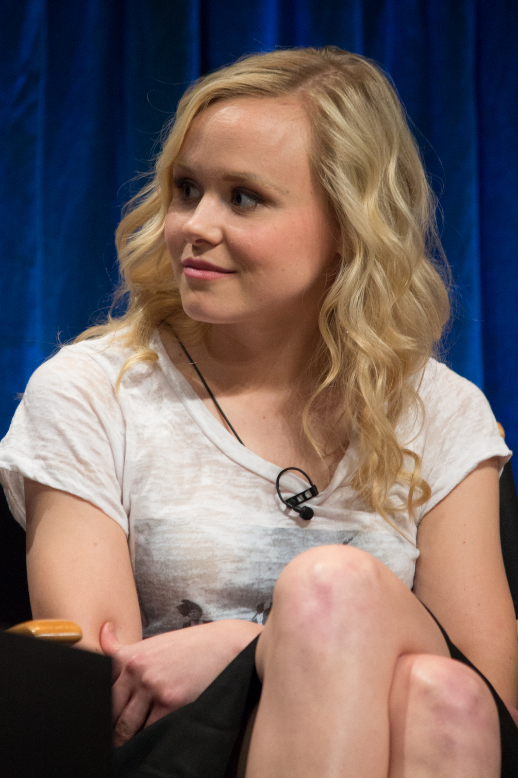 Alison Pill at the PaleyFest 2013 panel on the TV show "The Newsroom"